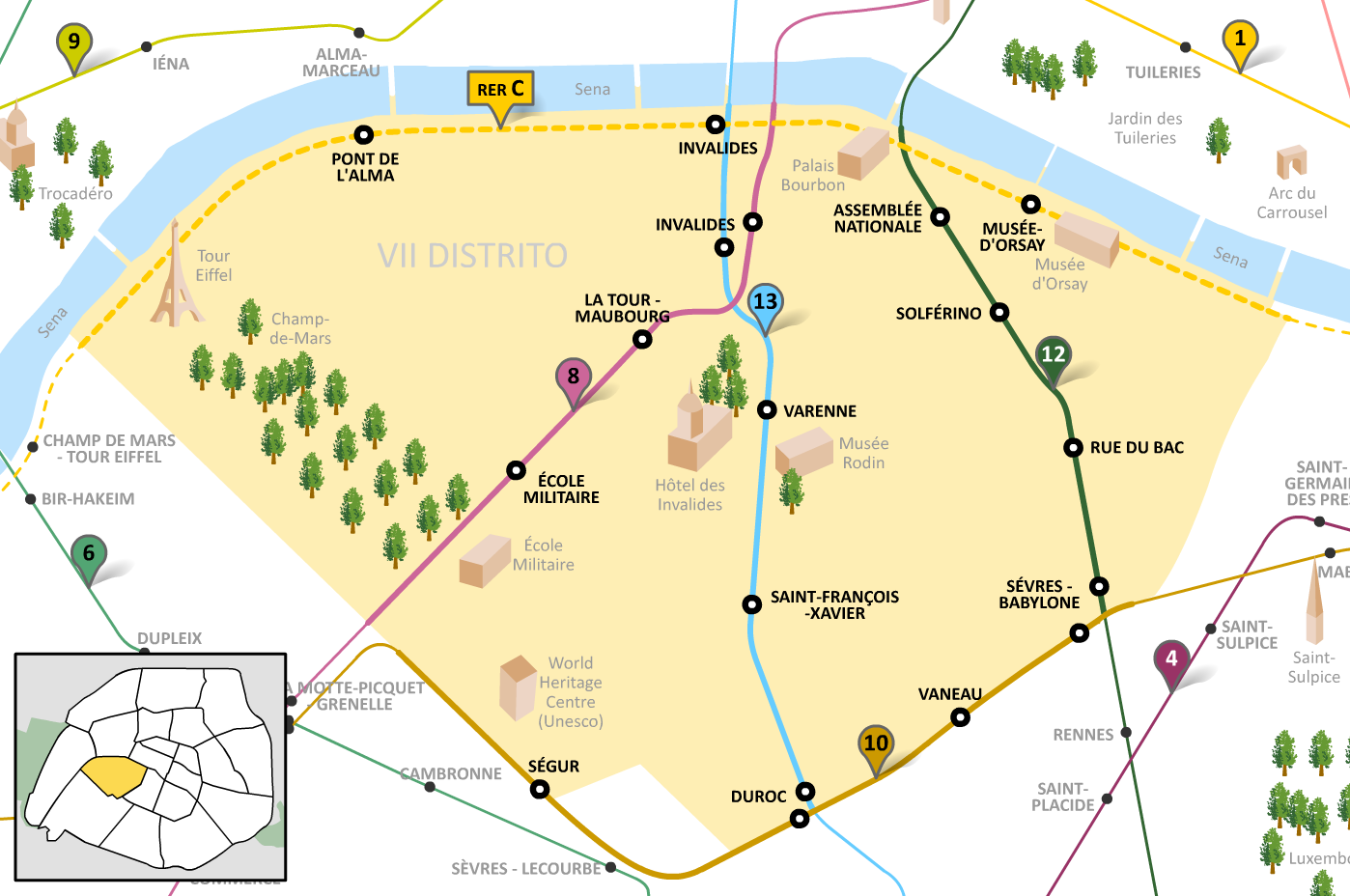 Paris 7th district (France), metro (subway) lines and RER. In spanish